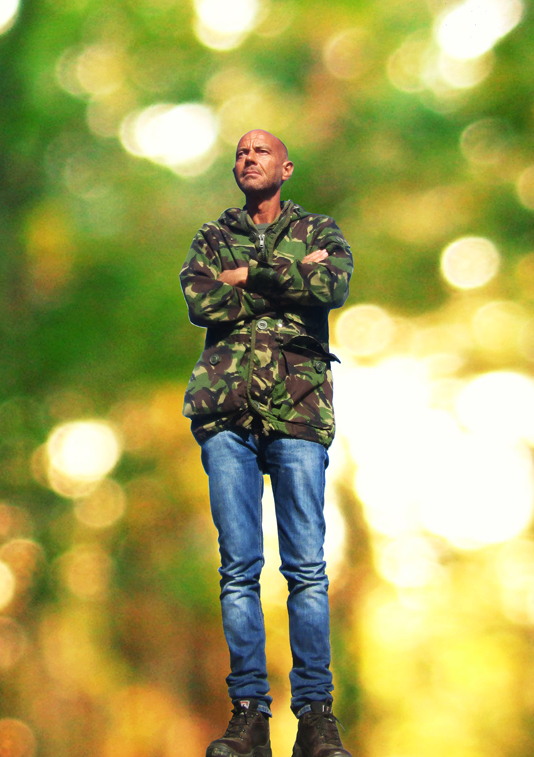 John Evans Welsh Writer Film-maker Activist